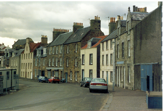 Pittenweem.